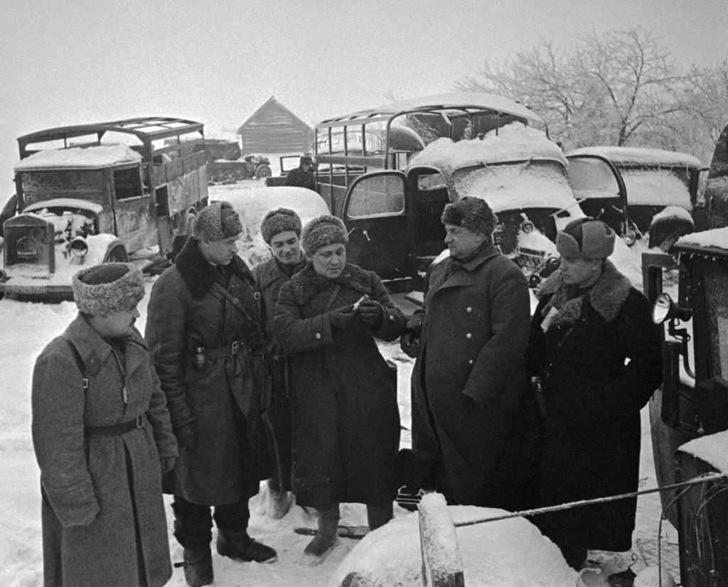 “The examination of trophies”. Commander of the 16th Army, Lieutenant-General Rokossovsky, second to the left, member of the military council Lobachev and writer Stavsky examining Nazi vehicles.